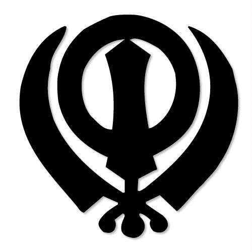 The one